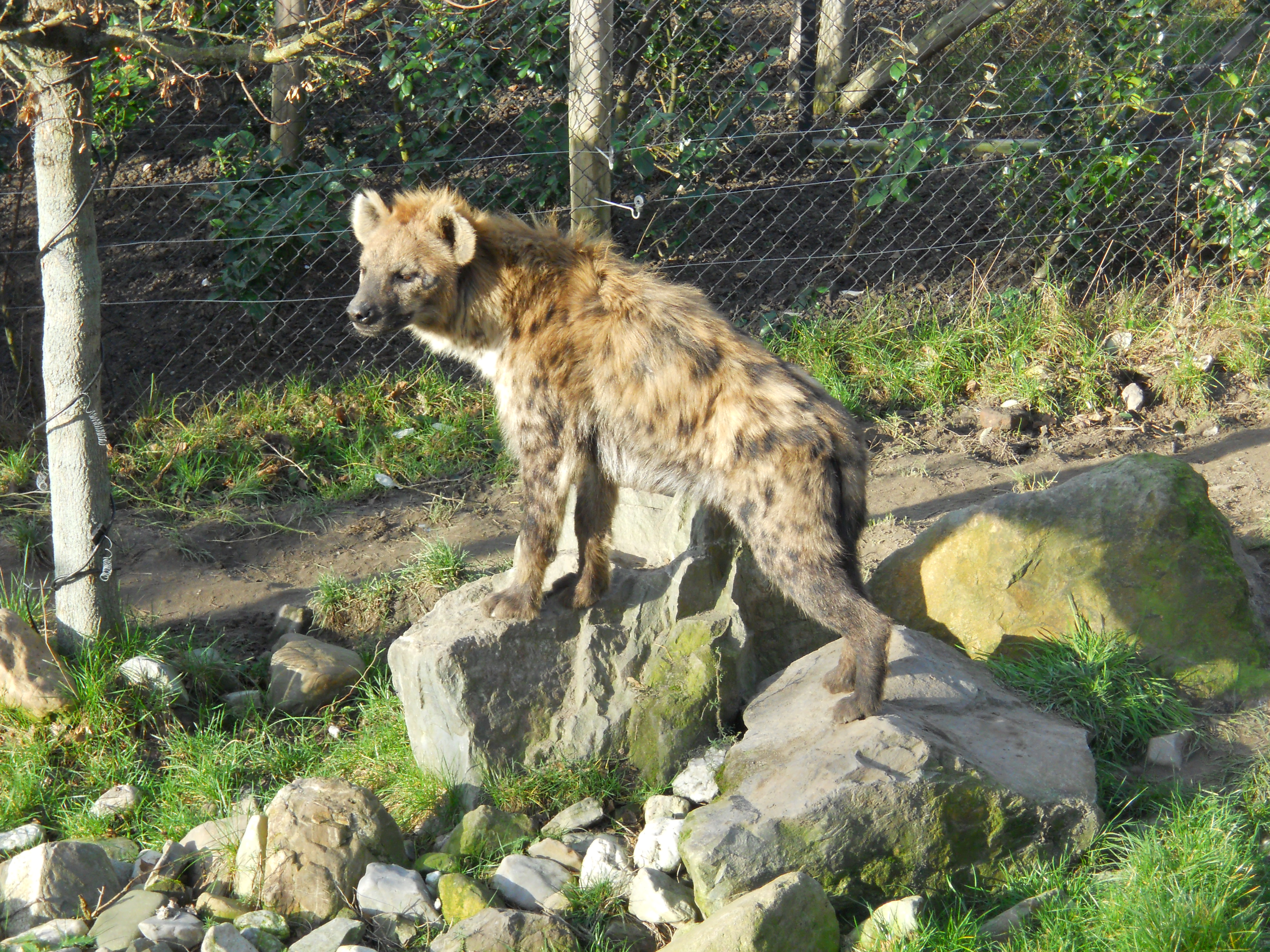 Spotted hyena